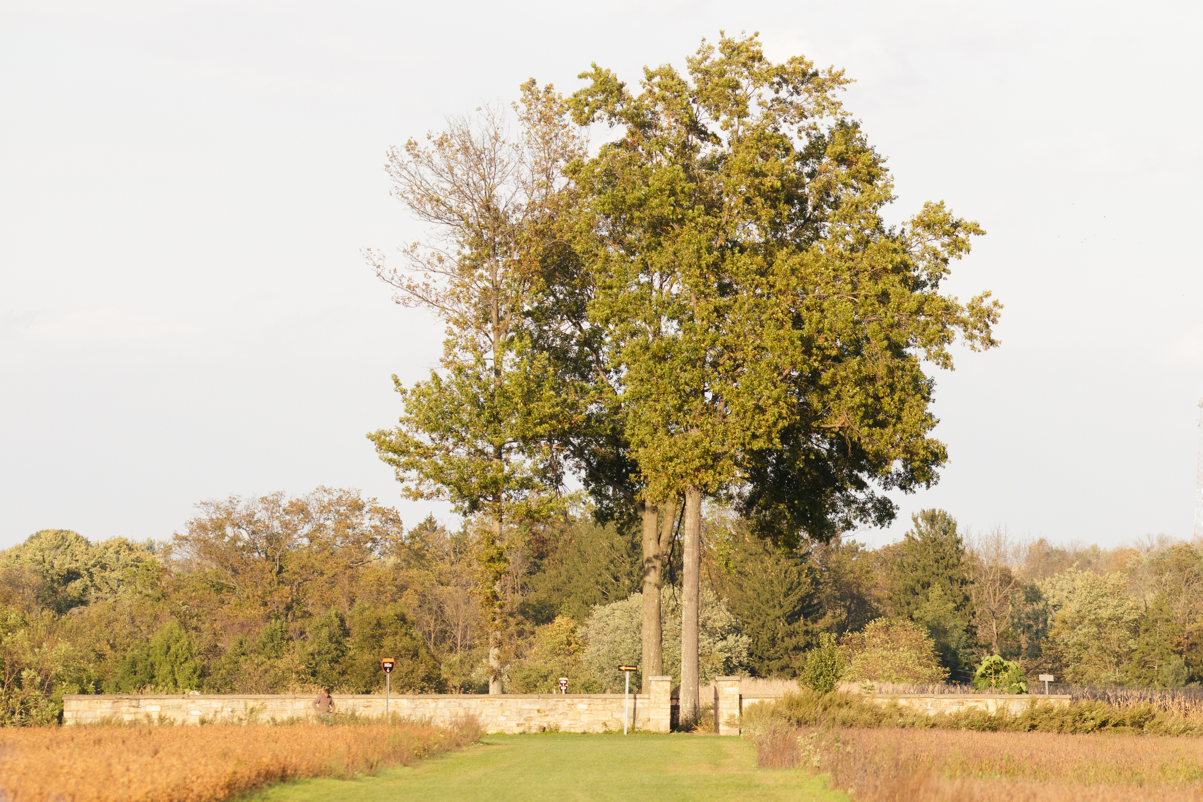 The Schenck-Covenhoven Burial Yard in Princeton University's West Windsor fields in West Windsor Township, New Jersey. The Schencks and Covenhovens were the original farmers who settled the area.